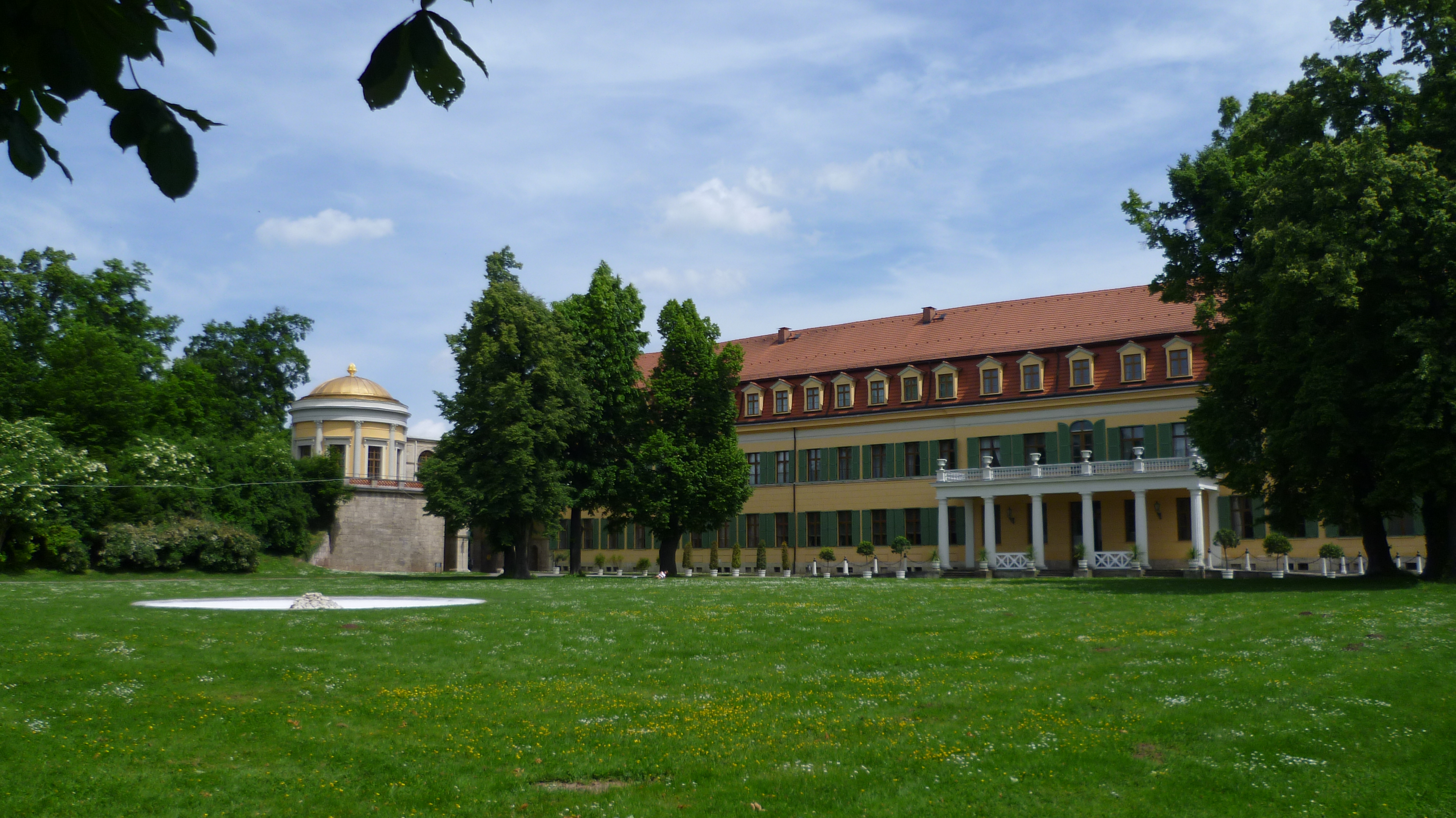 Sondershausen palace